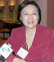 Gao Yu